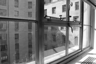 Detail views of historic windows retroitted with laminated glass containing ilm to resist glass fragmentation and reduce heat gain